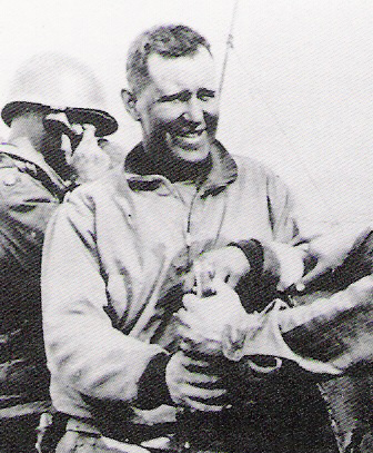 Lieutenant colonel Creighton W. Abrams (septembre 1944, Lorraine campaign)